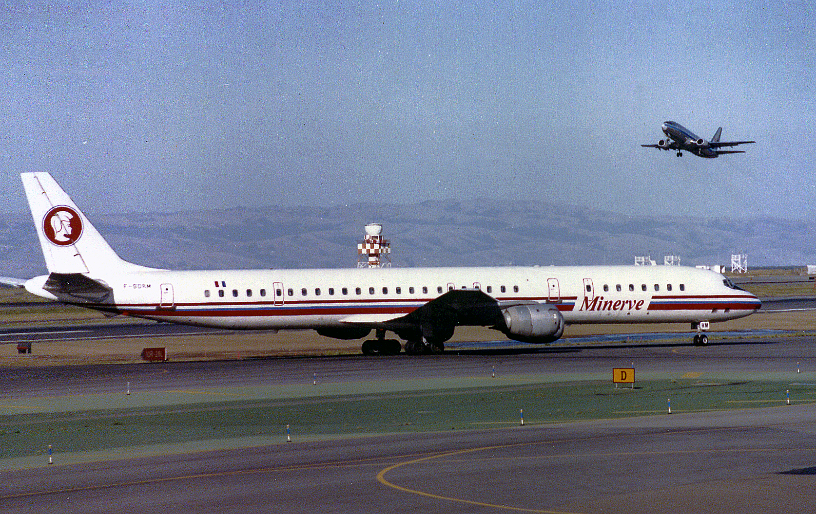 A Douglas DC-8-73F aircraft (F-GDRM) of Minerve at San Francisco International Airport in 1990